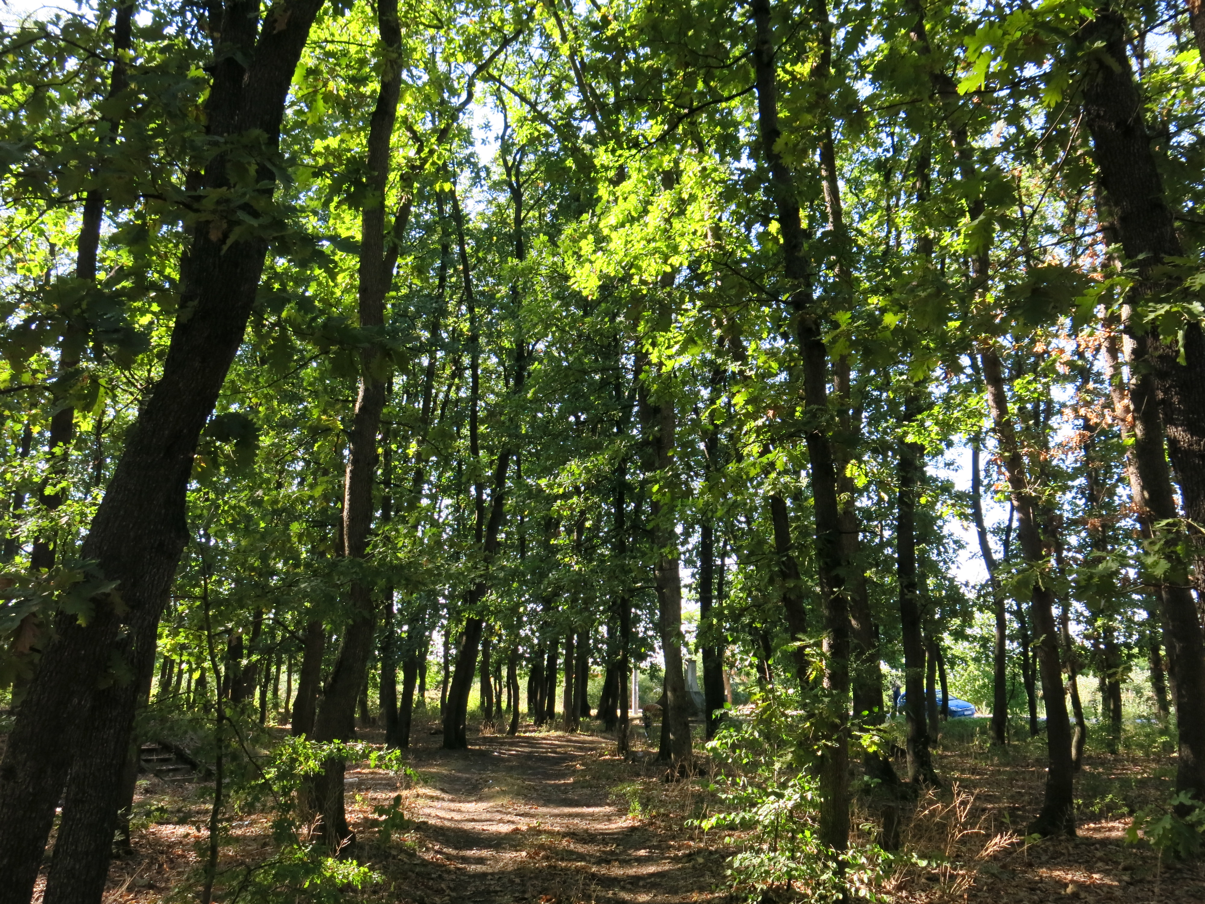 Lunjevac, Lunjevac forest